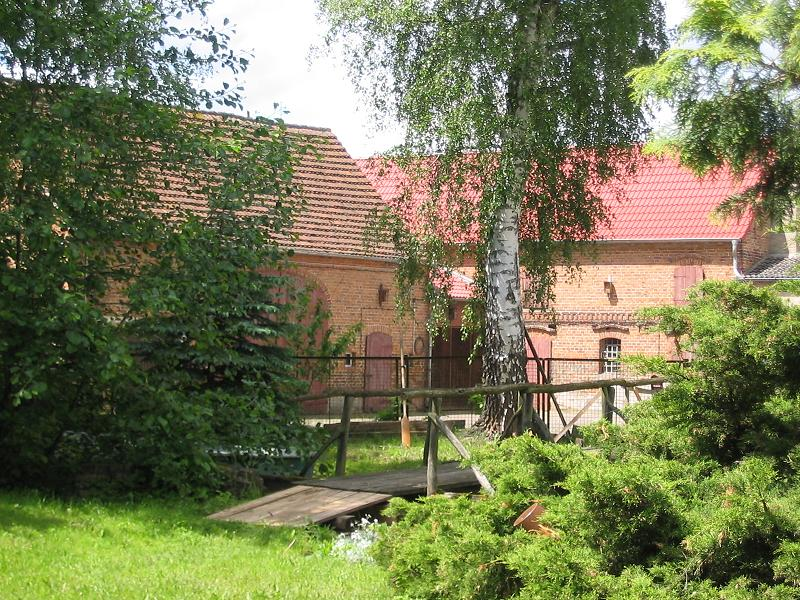 Watermill Gömnigk at the stream Plane. The village Gömnigk is an incorporated part of the town Brück in Brandenburg, Germany.